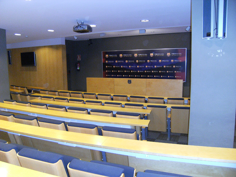 Press room of Camp Nou, Barcelona, Spain